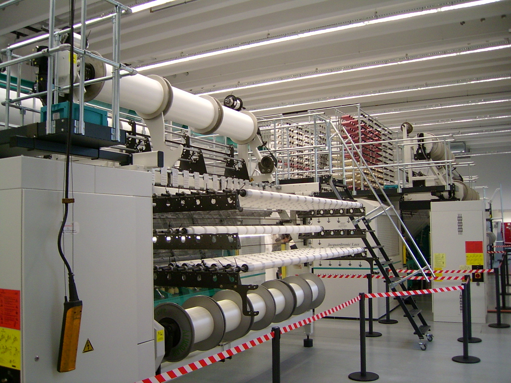 Textilmaschinen von Karl Mayer / machine for textile from Karl Mayer